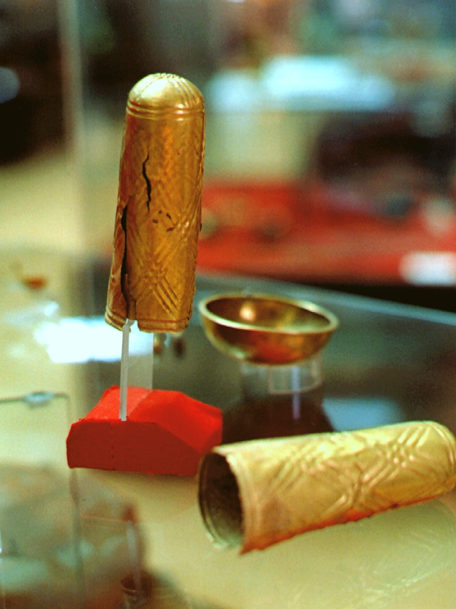 Condoms made of gold, with geometrical reliefs, and small gold cup with handle. Probably funeral. Alacahöyük, Bronze Age, late 3rd millennium BC. Museum of Anatolian Civilizations, Ankara.